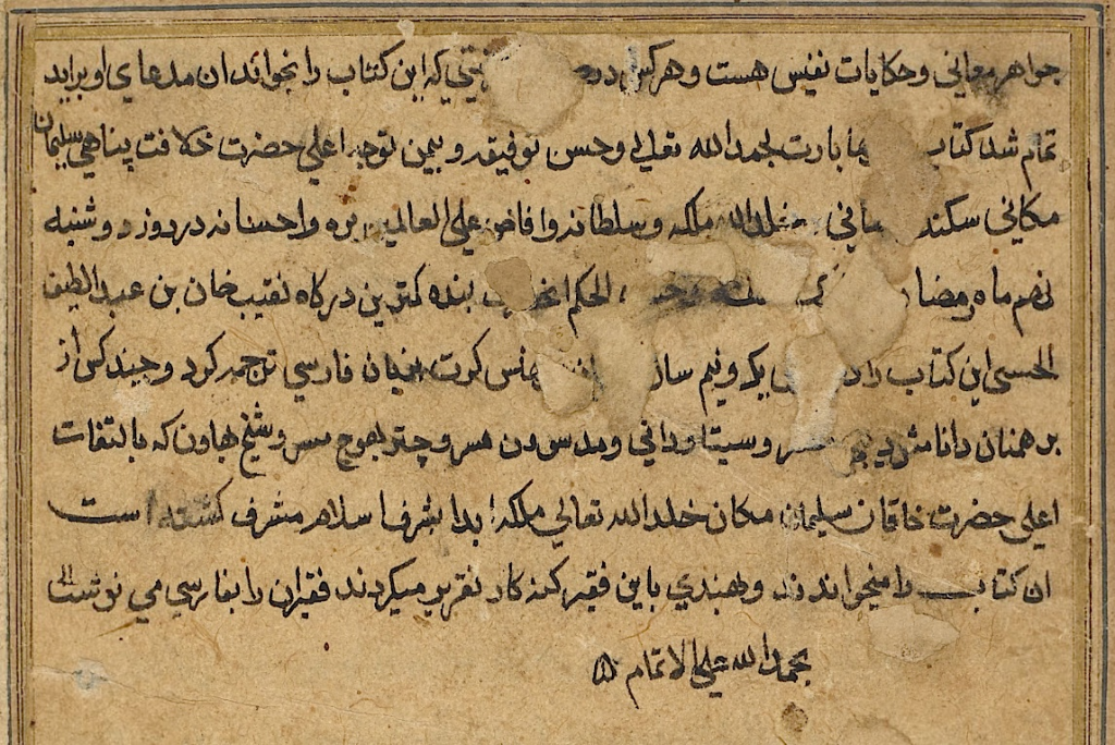 Text said "Naqīb Khān, son of ʻAbd al-Laṭīf Ḥusaynī, translated [this work] from Sanskrit into Persian in one and a half years. Several of the learned Brahmans, such as Deva Miśra, Śatāvadhāna, Madhusūdana Miśra, Caturbhuja and Shaykh Bhāvan…read this book and explained it in hindī to me, a poor wretched man, who wrote it in Persian."